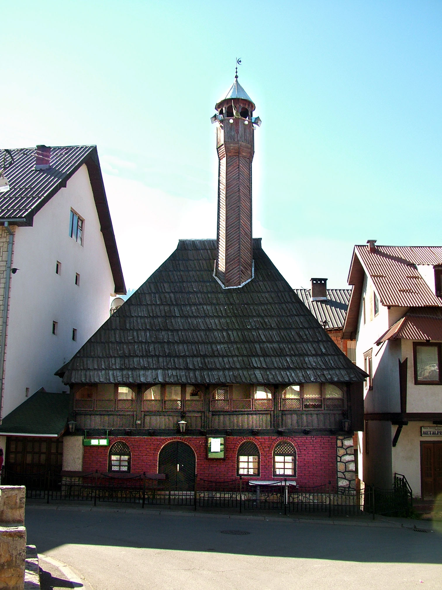 rozaje